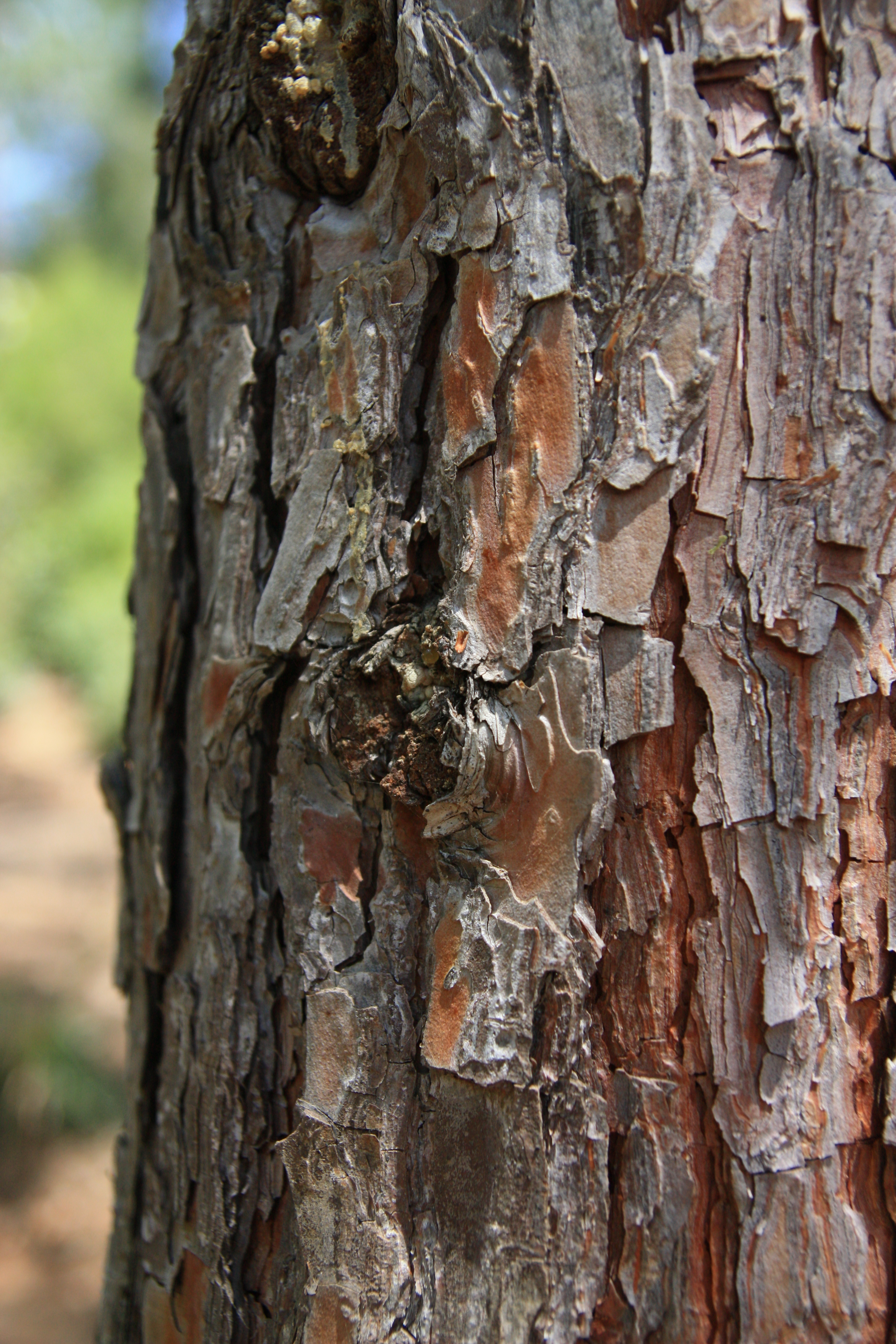 Mount Carmel